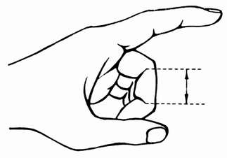 Chinese Cun, variant 1